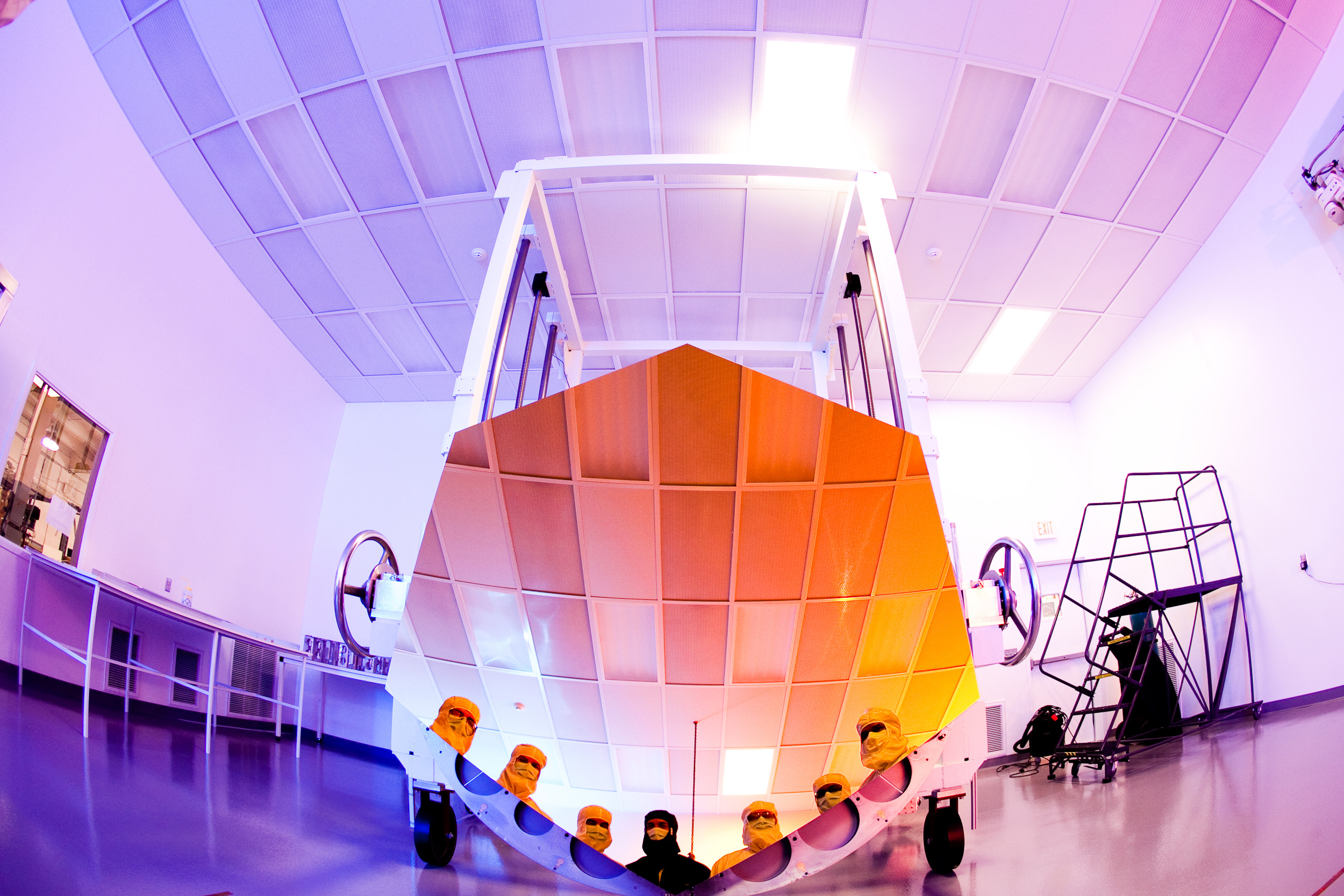 The James Webb Space Telescope's Engineering Design Unit (EDU) primary mirror segment, coated with gold.